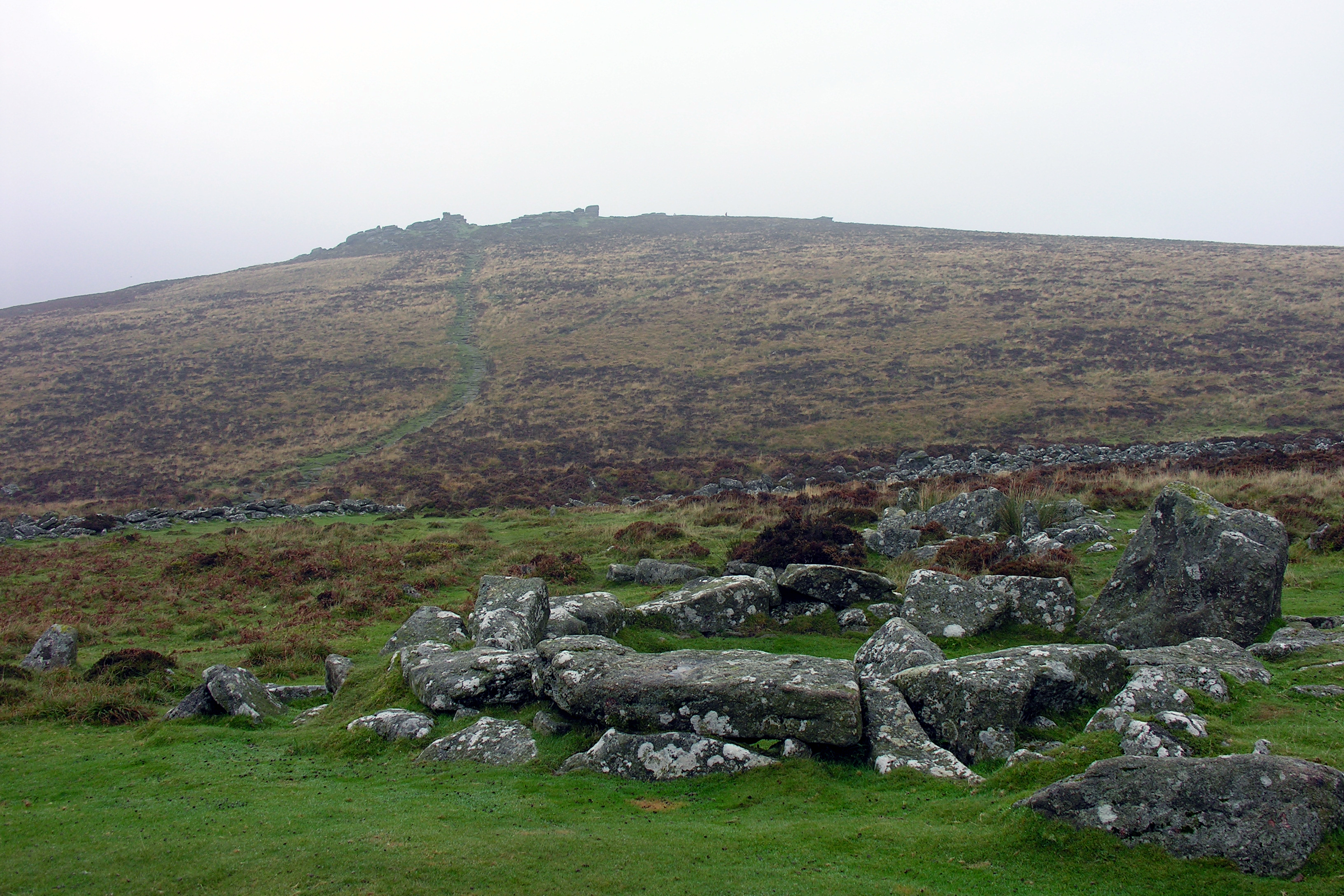 Grimspound with Hookney Tor on the horizon, Dartmoor, Devon, England. 7 October 2005